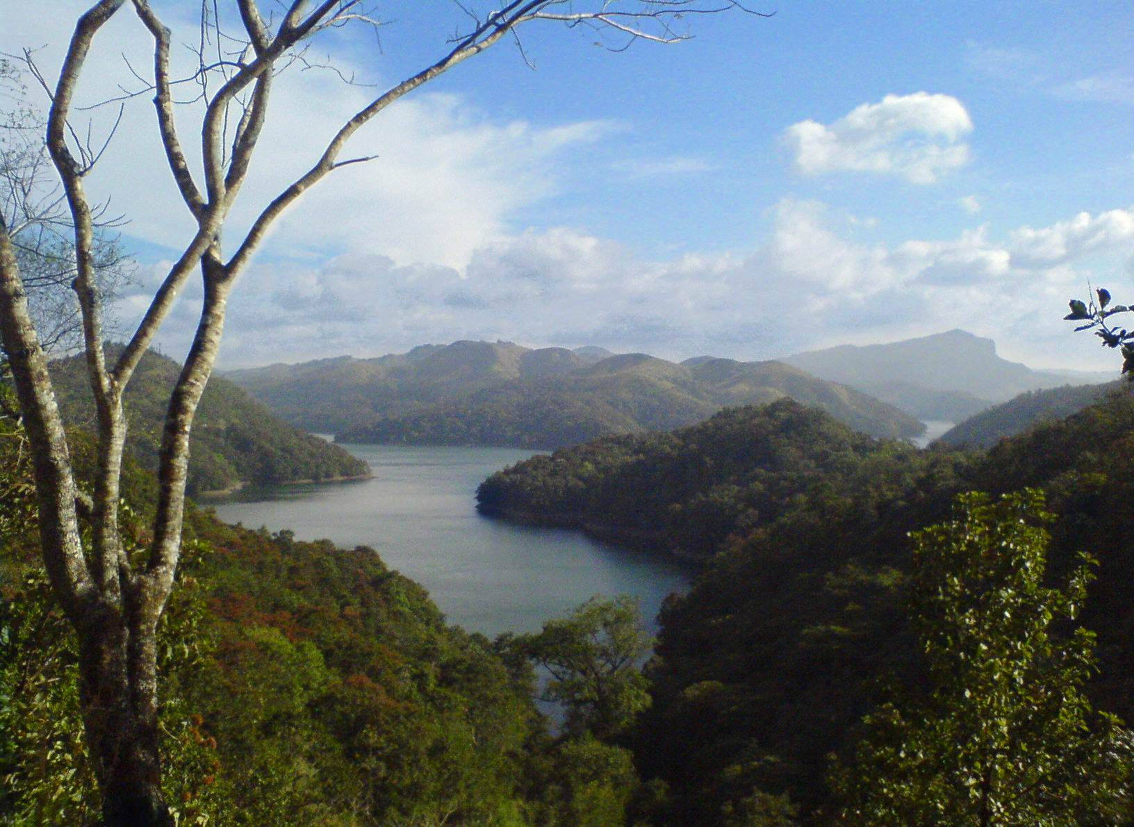 Scenic view of Idukki Reservoir.